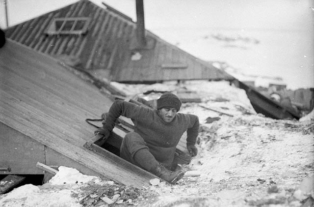 Format: 1 photonegative ; Half plate Notes: First Australasian Antarctic Expedition, 1911-1914 Frank Hurley visited the Antarctic six times between 1911 and 1932. For more information and pictures, visit Discover Collections: Hurley's Antarctica on the State Library of NSW's website: From the collections of the Mitchell Library, State Library of New South Wales Information about photographic collections of the State Library of New South Wales .au/search/SimpleSearch.aspx Persistent url: .au/item/itemDetailPaged.aspx?itemID=53642